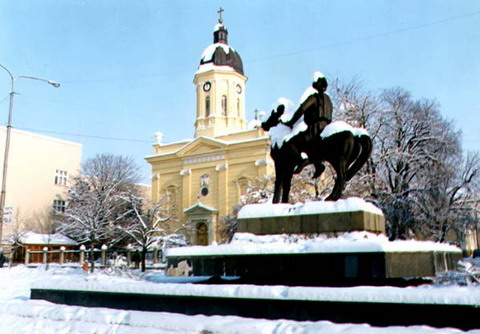 Orthodox church and monument to Hajduk Veljko in Negotin